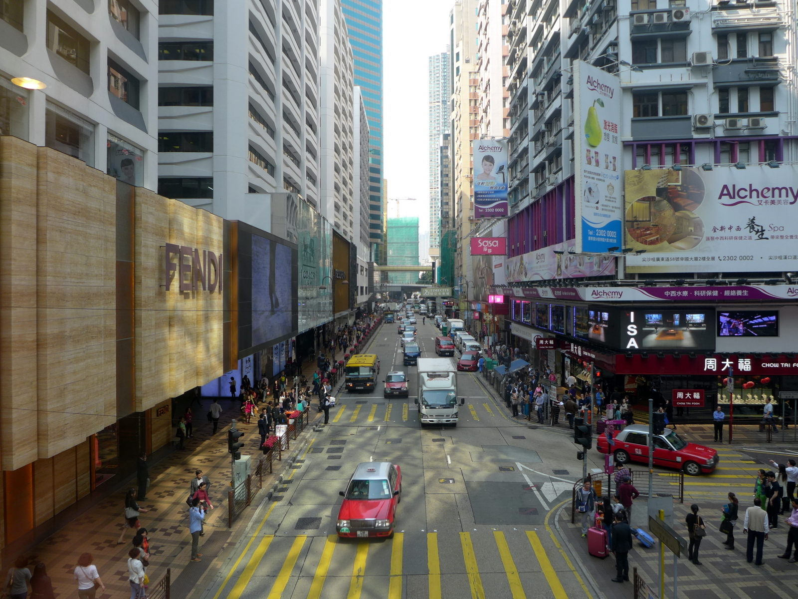 Canton Road Tsim Sha Tsui Section_